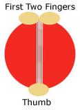 Diagram showing the correct grip for bowling a fast ball in cricket.